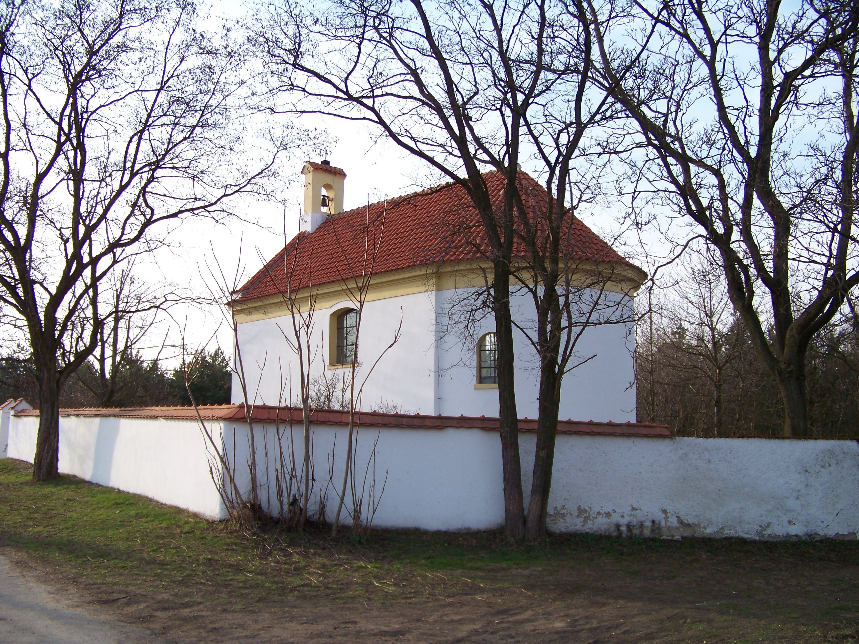 Suchdol, Prague, the Czech Republic. The Chapel of Saint Wenceslaus.